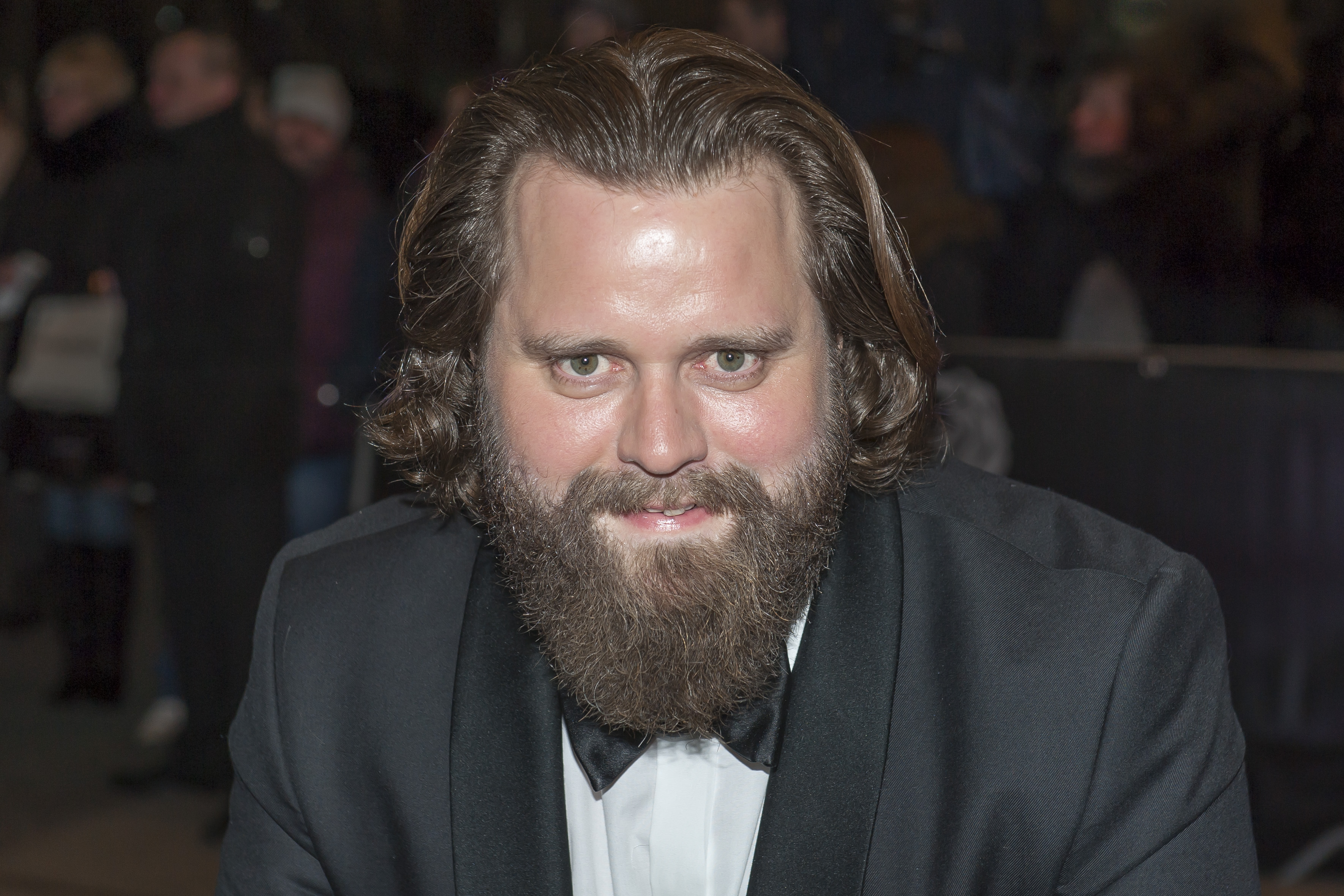 Actor Antoine Monot Jr. Medienboard reception at the Ritz Carlton Hotel Berlin